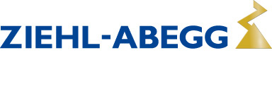 Current Logo of the Company Ziehl-Abegg